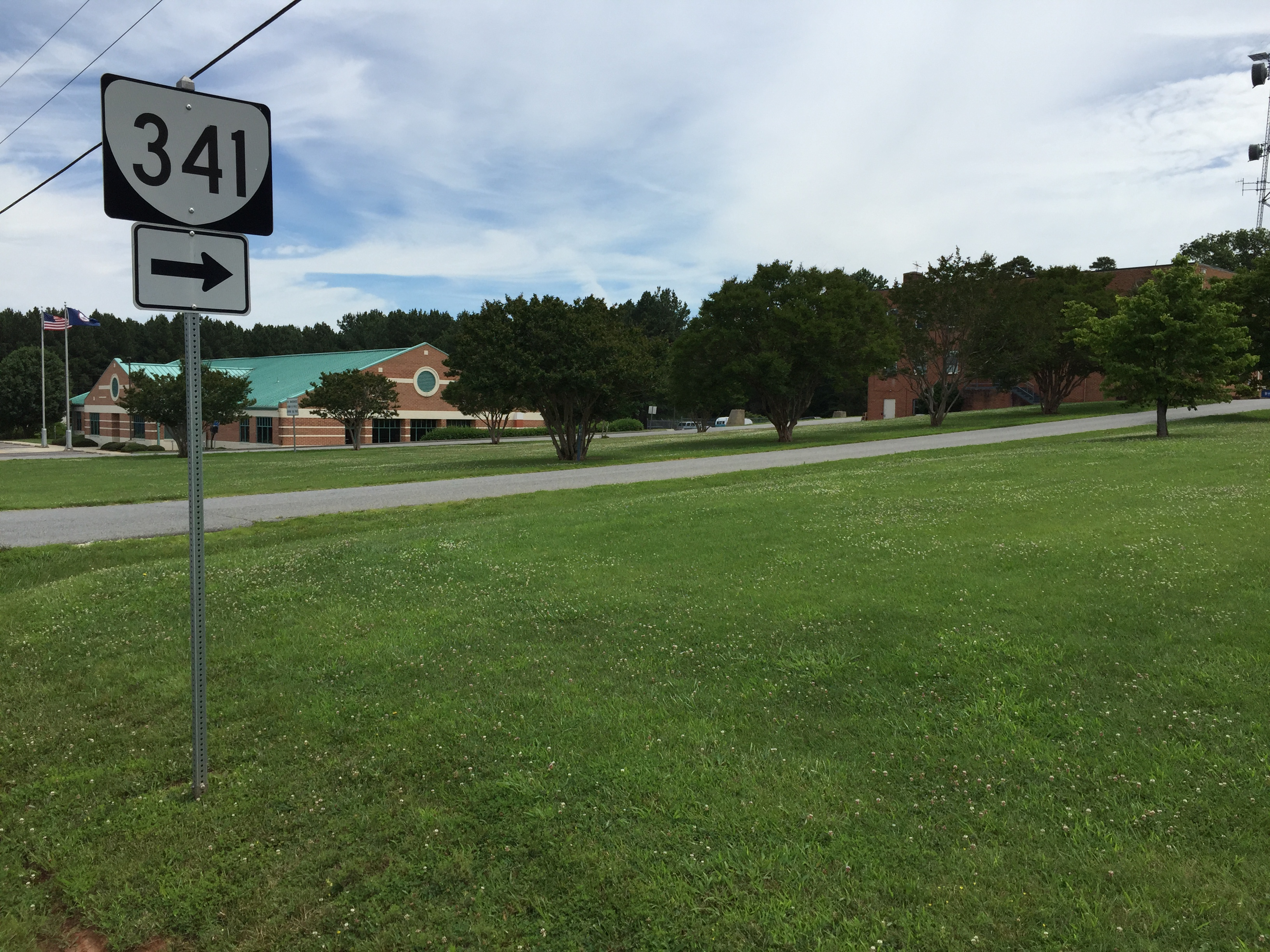 View of Virginia State Route 341 at Police Tower Road (Virginia State Secondary Route 613) at the State Police Headquarters in Appomattox County, Virginia